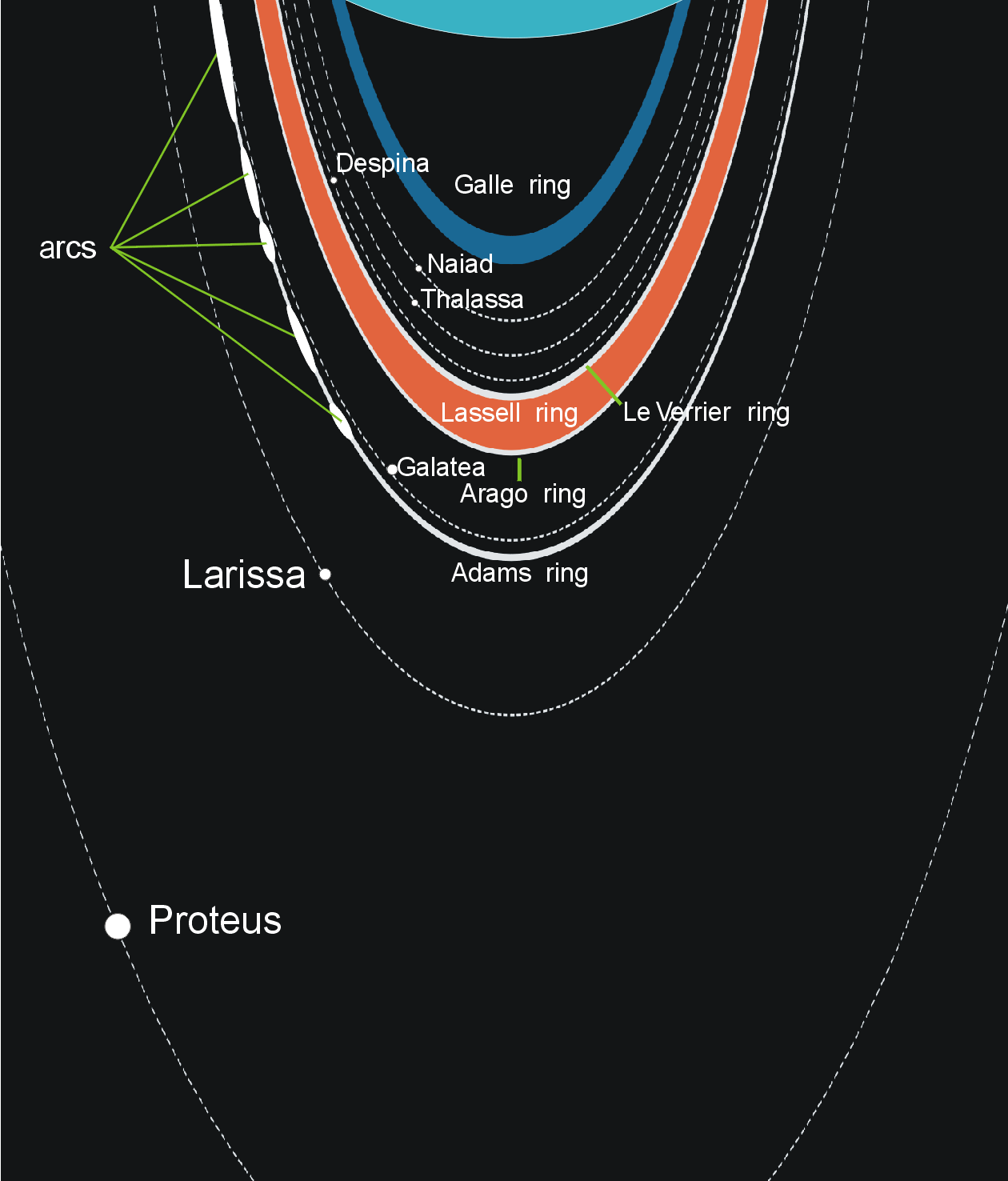 The scheme of the ring-moon system of the planet Neptune. The proportions are real. "anillos de neptuno"